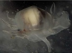 Waldo digitatus